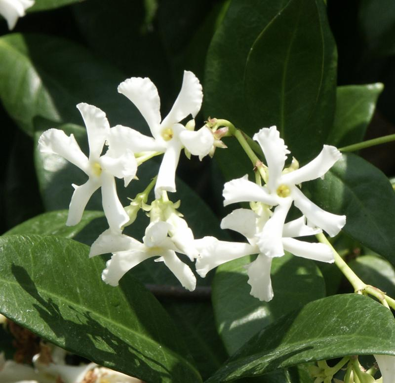 Trachelospermum jasminoides in Fairchild Tropical Botanic Garden, Miami, FL